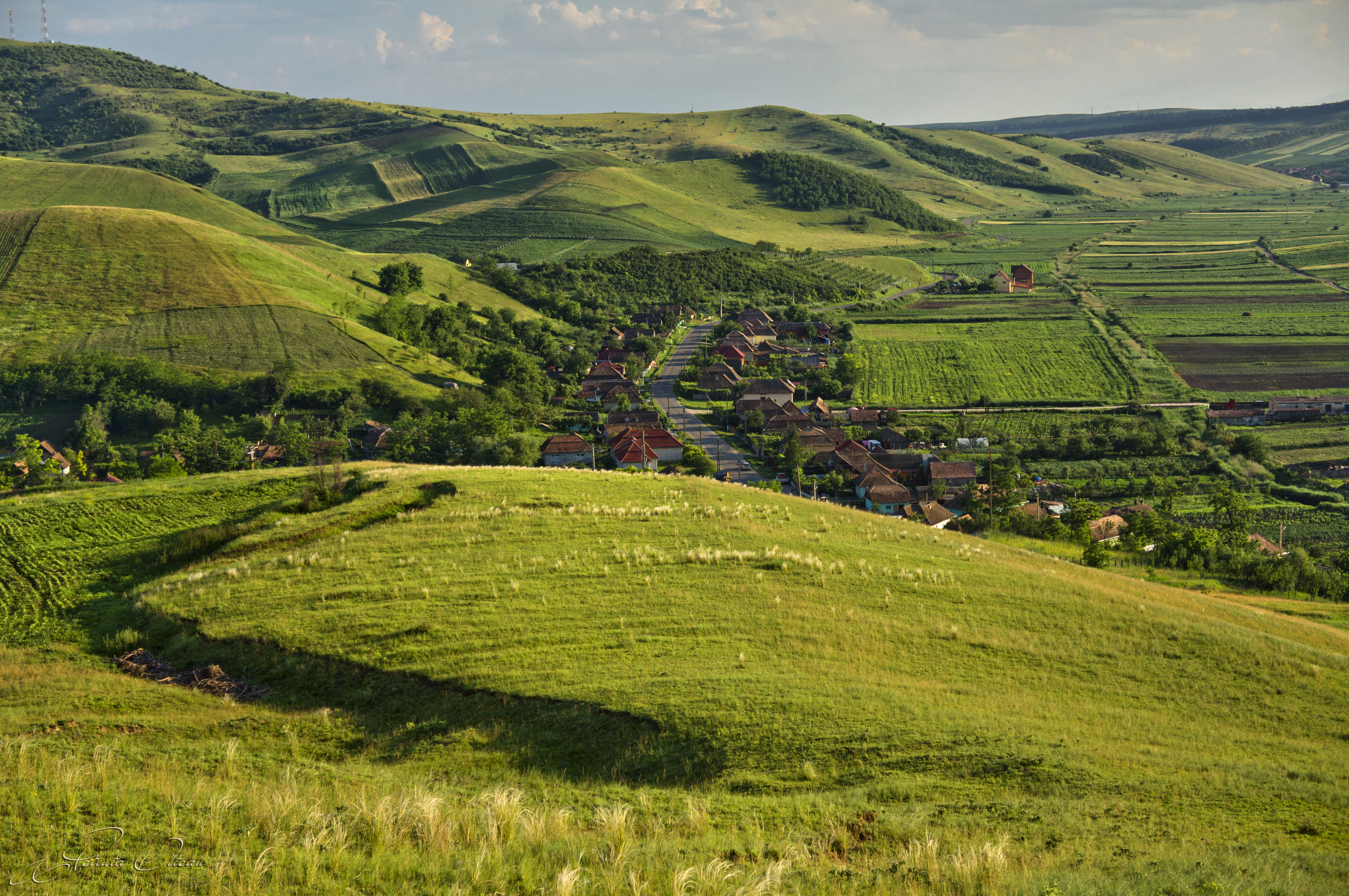 Boian,Cluj, exit to Campia Turzii